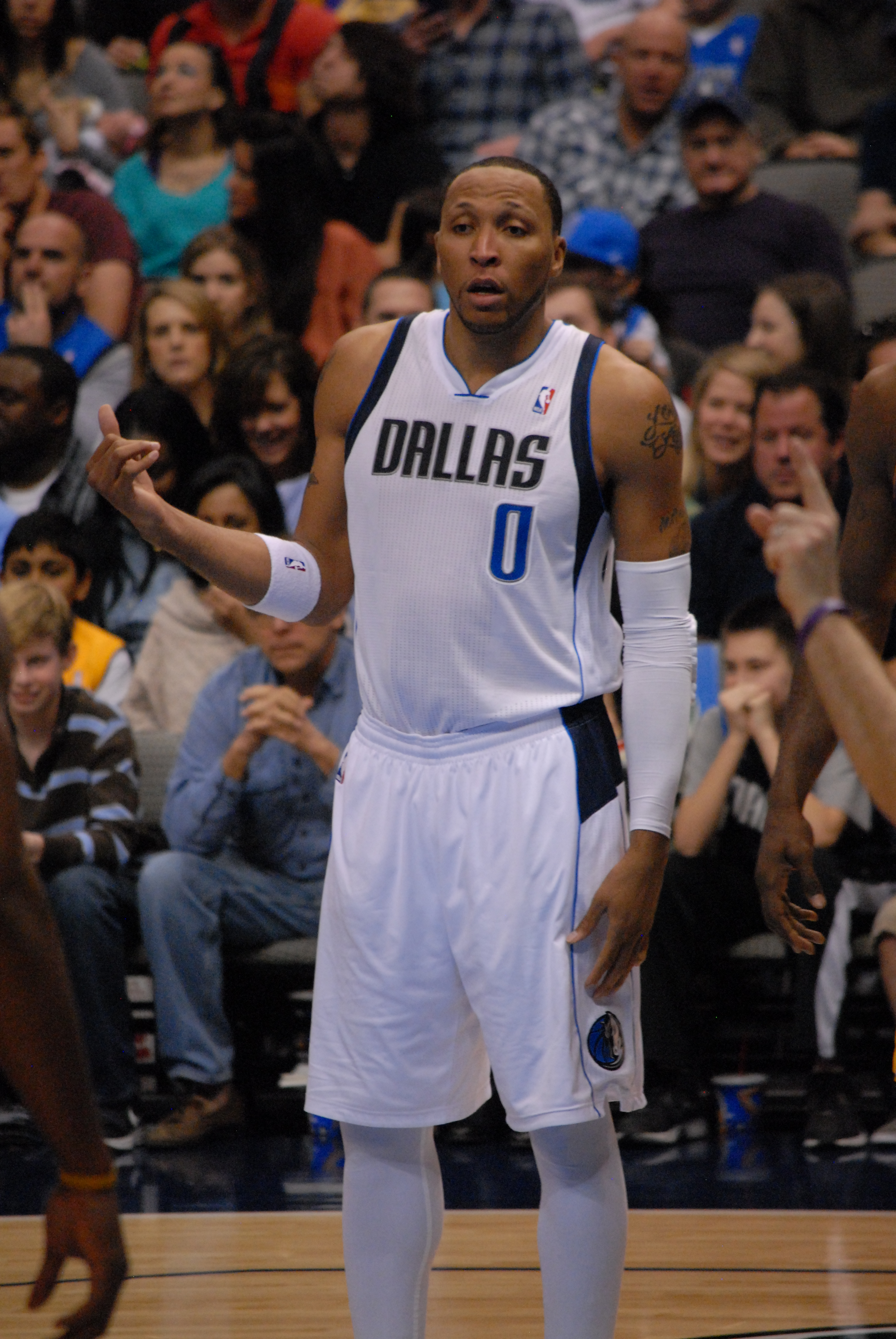 Shawn Marion of the Dallas Mavericks, February 2013